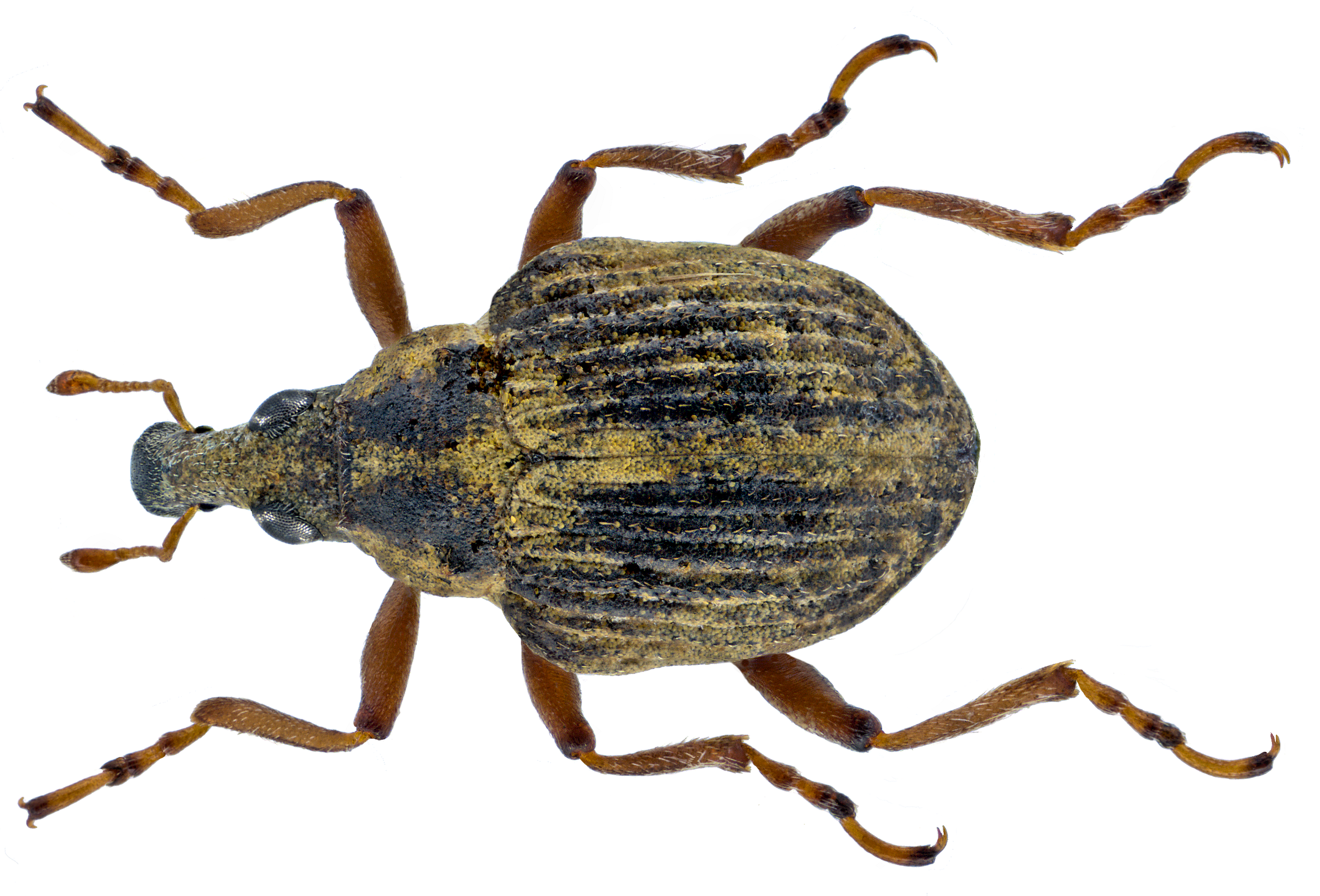 Family: Curculionidae Size: 2,8 mm (2,4 to 2,9 mm) Distribution: from Central Asia to Europe Ecology: lives on Myriophyllum Location: England, Oxford leg.det. P.J.Osborne, 9.VI.1954 Coll. Oxford University Museum of Natural History Photo: U.Schmidt, 2014